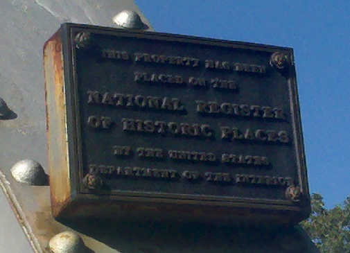 Deep River Camelback Bridge NRHP plaque, Aug. 2012